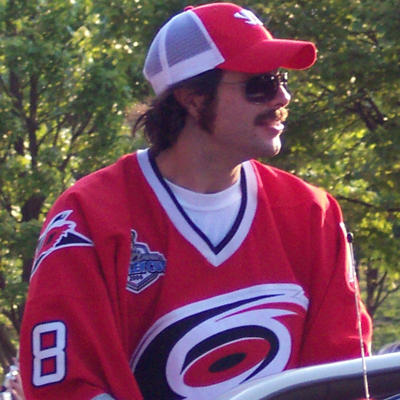 Matt Cullen